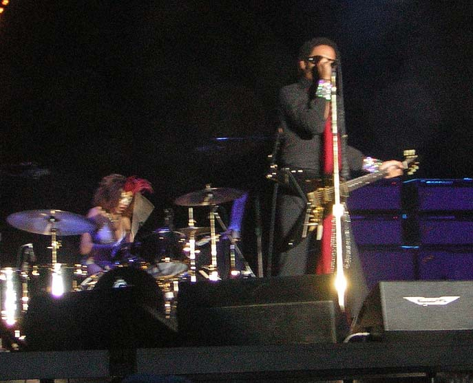 Cindy Blackman plays percussion for Lenny Kravitz in concert in Chile on March 9, 2005.